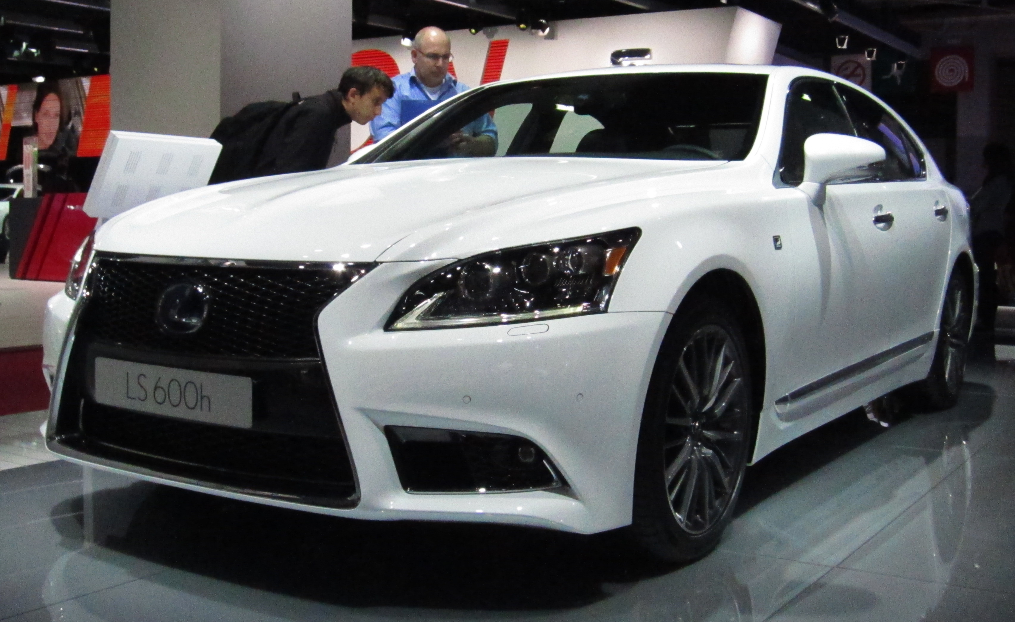 Lexus LS 600h F SPORT LINE facelift at Mondial de l'Automobile Paris 2012